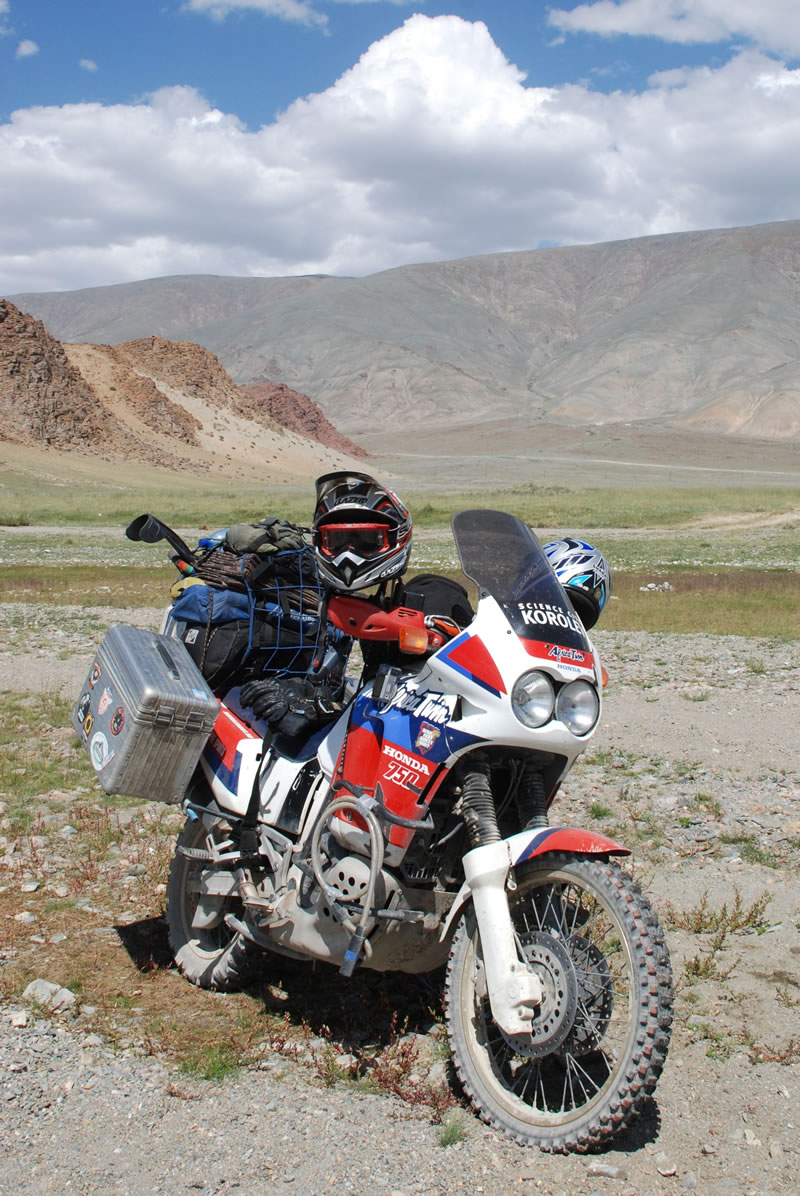 Dual-purpose motorcycle Honda Africa Twin XRV750